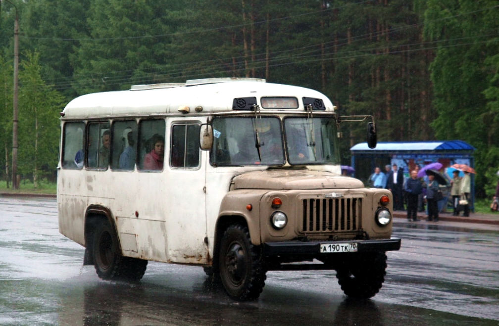 KAvZ-3270 bus in Tomsk